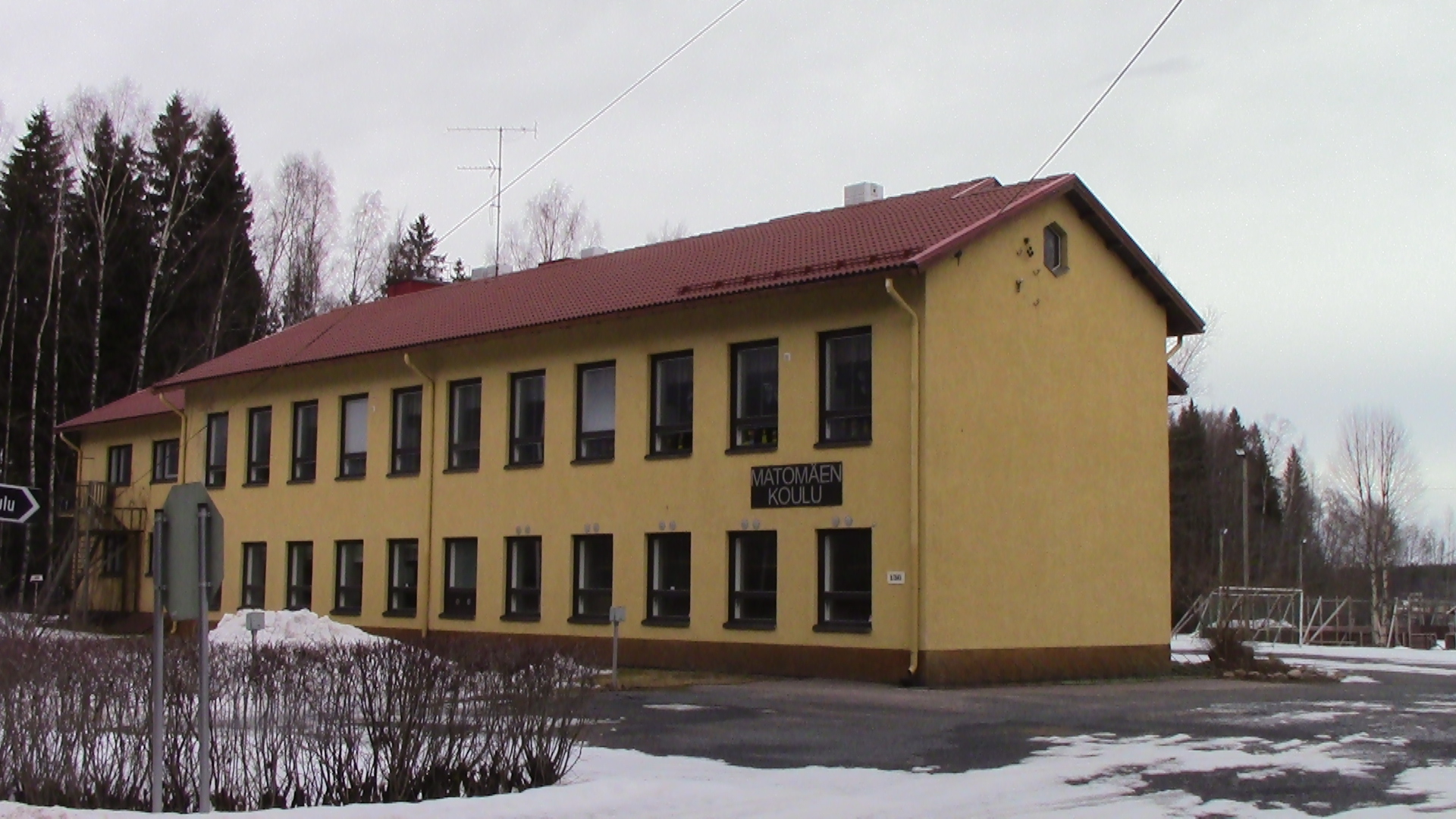 Matomäki school at Matomäki village in Nakkila, Finland. The school gives an education for all elementary school classes.